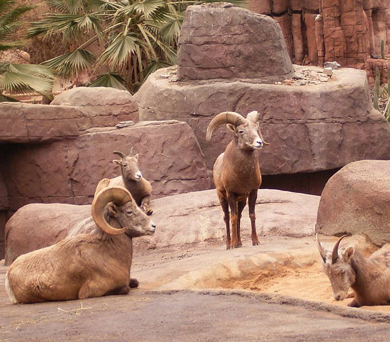 Ovis canadensis Bighorn Sheep - Burgers Zoo, NL